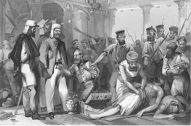 British soldiers looting Qaisar Bagh, Lucknow, after its recapture (steel engraving, late 1850's). The steel engraving depicts the Time correspondent looking on at the sacking of the Kaiser Bagh, after the capture of Lucknow on March 15, 1858. "Is this string of little white stones (pearls) worth anything, Gentlemen?" asks the plunderer.